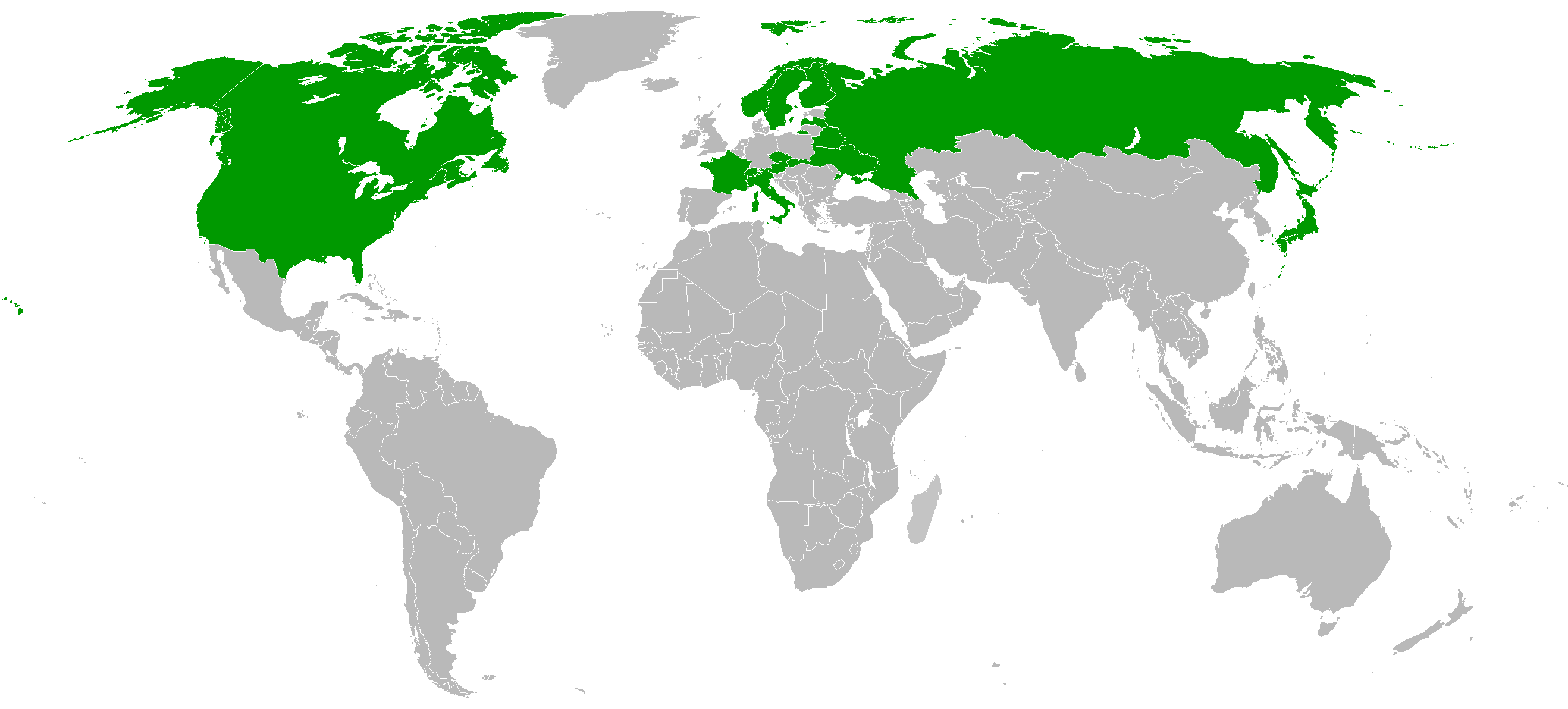 Countries participating in the 1999 IIHF World Championship.